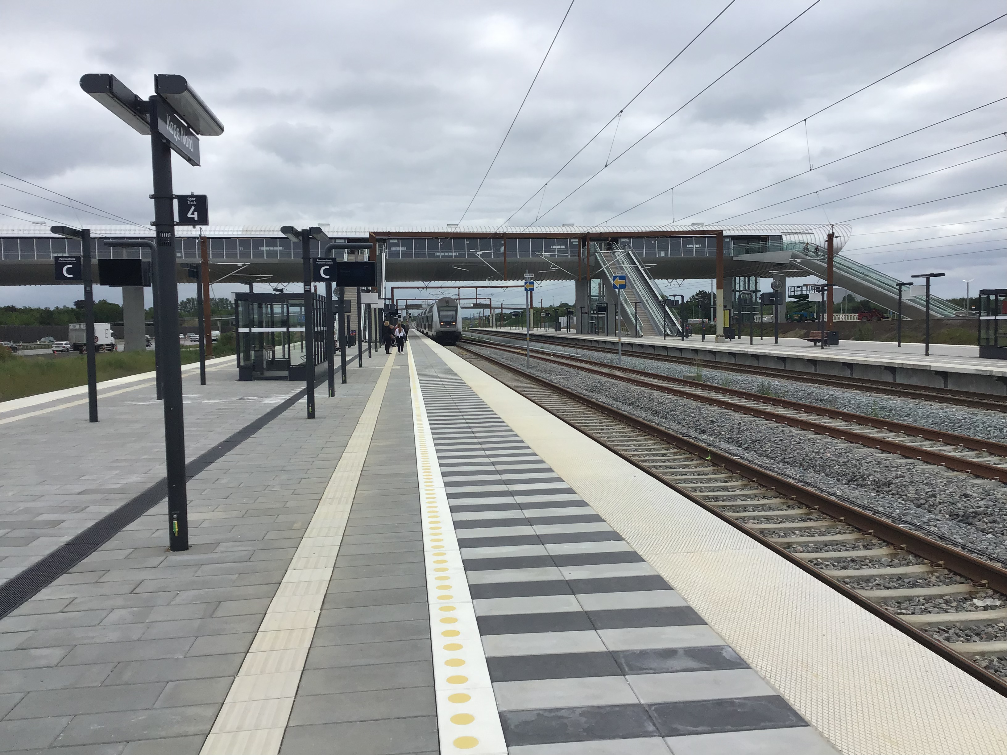 May 31st 2019 Køge North Station opened. It has a 225 m long pedestrian bridge connecting a high-speed train station with an urban train station, passing one of Denmark’s busiest motorways.